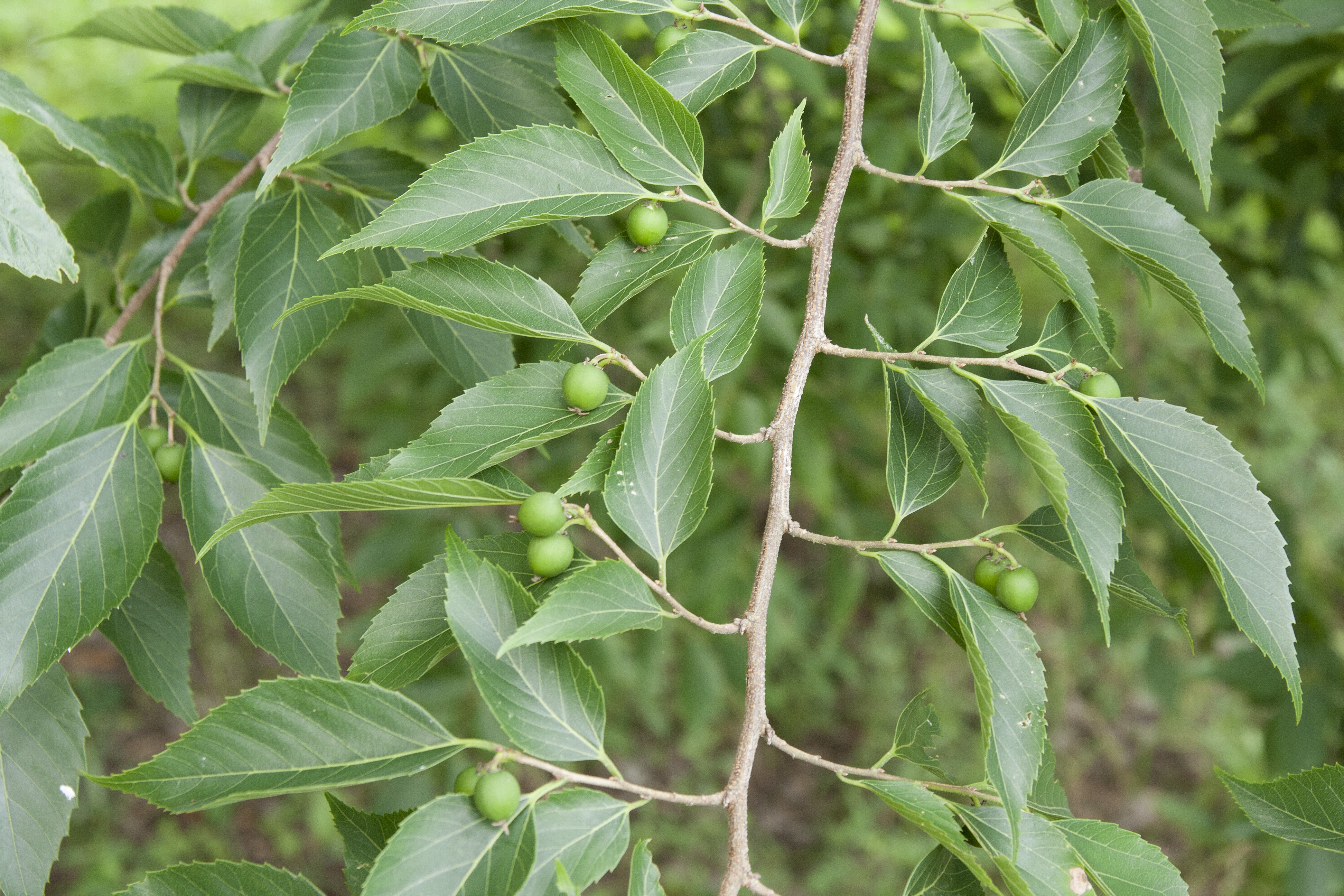 Aphananthe aspera Location: Miho Vill., Ibaraki, Japan